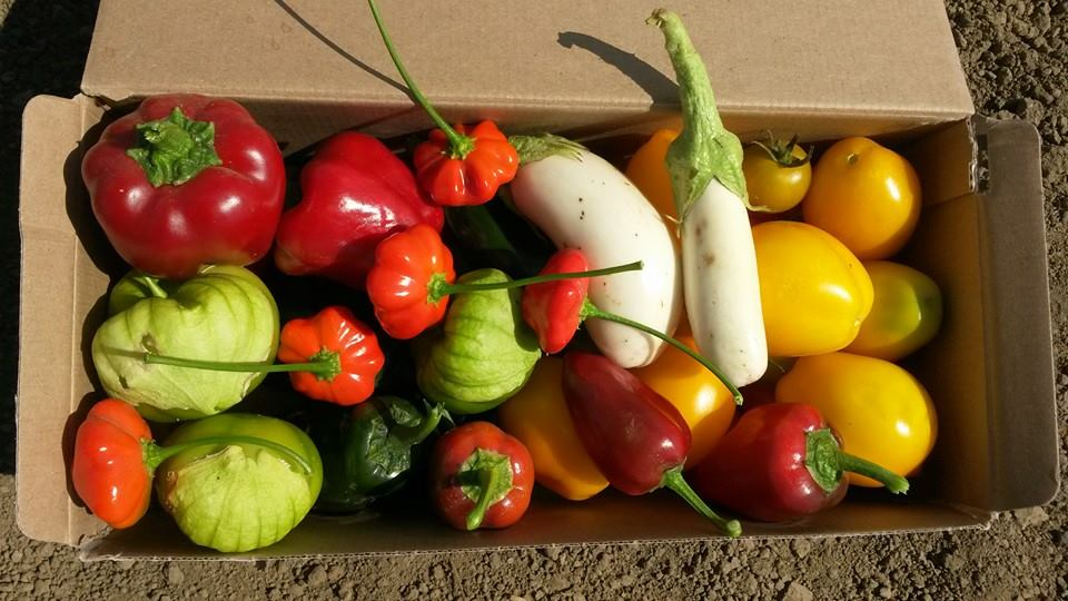 peppers, tomatoes, tomatillos, eggplant